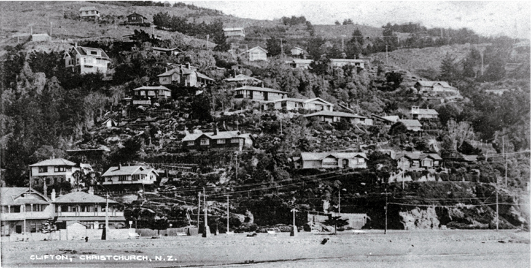 View of Clifton Spur